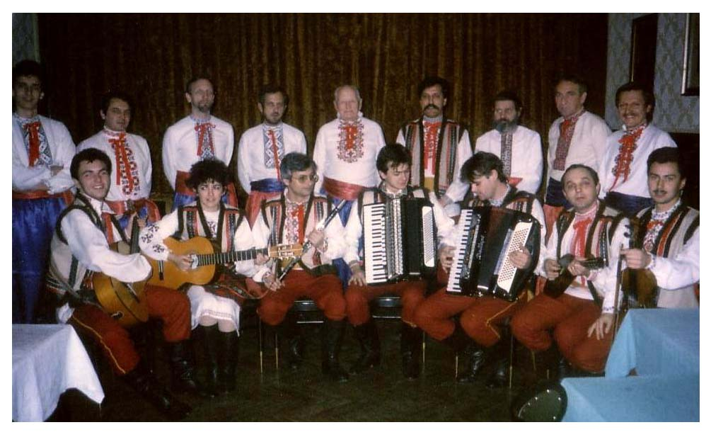 Ukrainian traditional music band Kobzar from Zagreb, Croatia (1987). The band was an integral part of the Cultural and Educational Society of Rusyns and Ukrainians in Zagreb (Croatia).